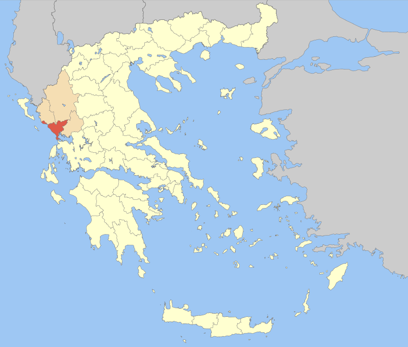 Locator map of Preveza prefecture (Νομός Πρέβεζας) in Greece